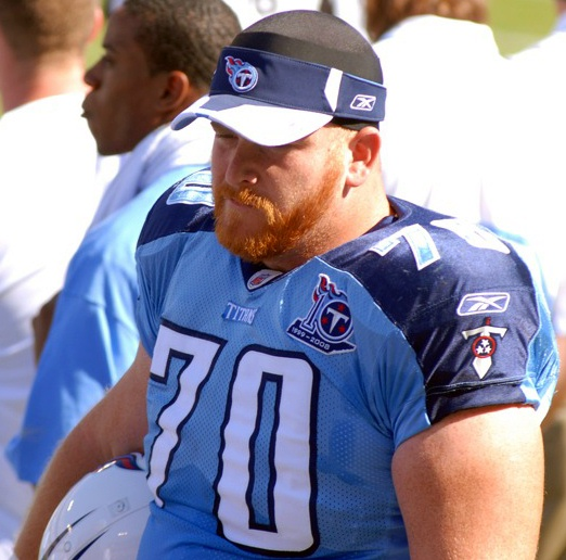 Tennessee Titans offensive tackle Daniel Loper on the sidelines during the game against the Green Bay Packers on November 2, 2008 at LP Field.